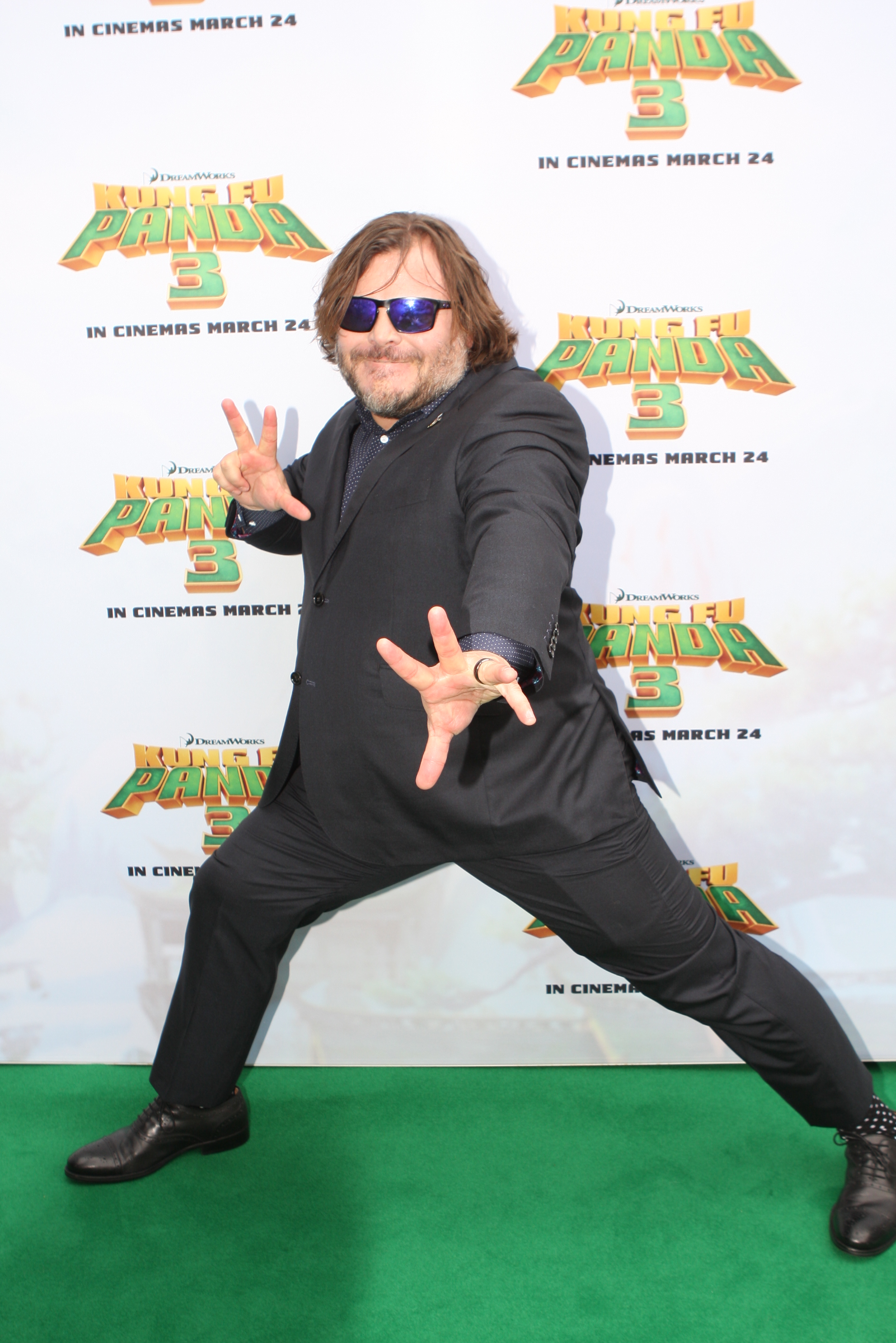 Jack Black